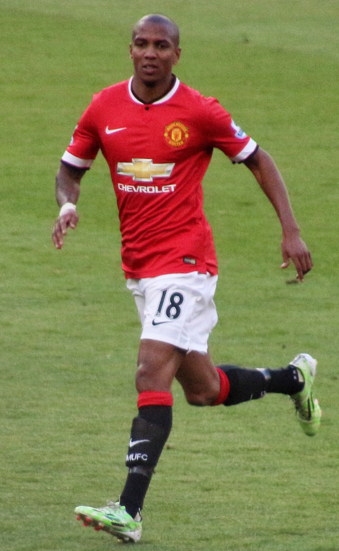 Ashley Young in 2015